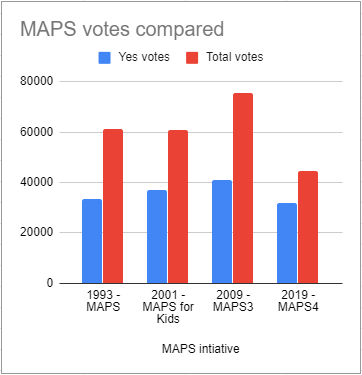 Comparison of the number of yes votes and total votes in the four MAPS intiatives.